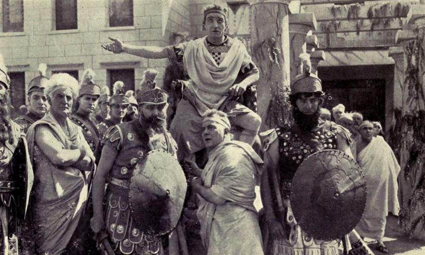 Still from the American film Damon and Pythias (1914) with Frank Lloyd, facing page 96 of the 1915 novel. Caption: "And from Agrigentum and almost certain death, he has returned triumphant, and rivals me in Syracuse."